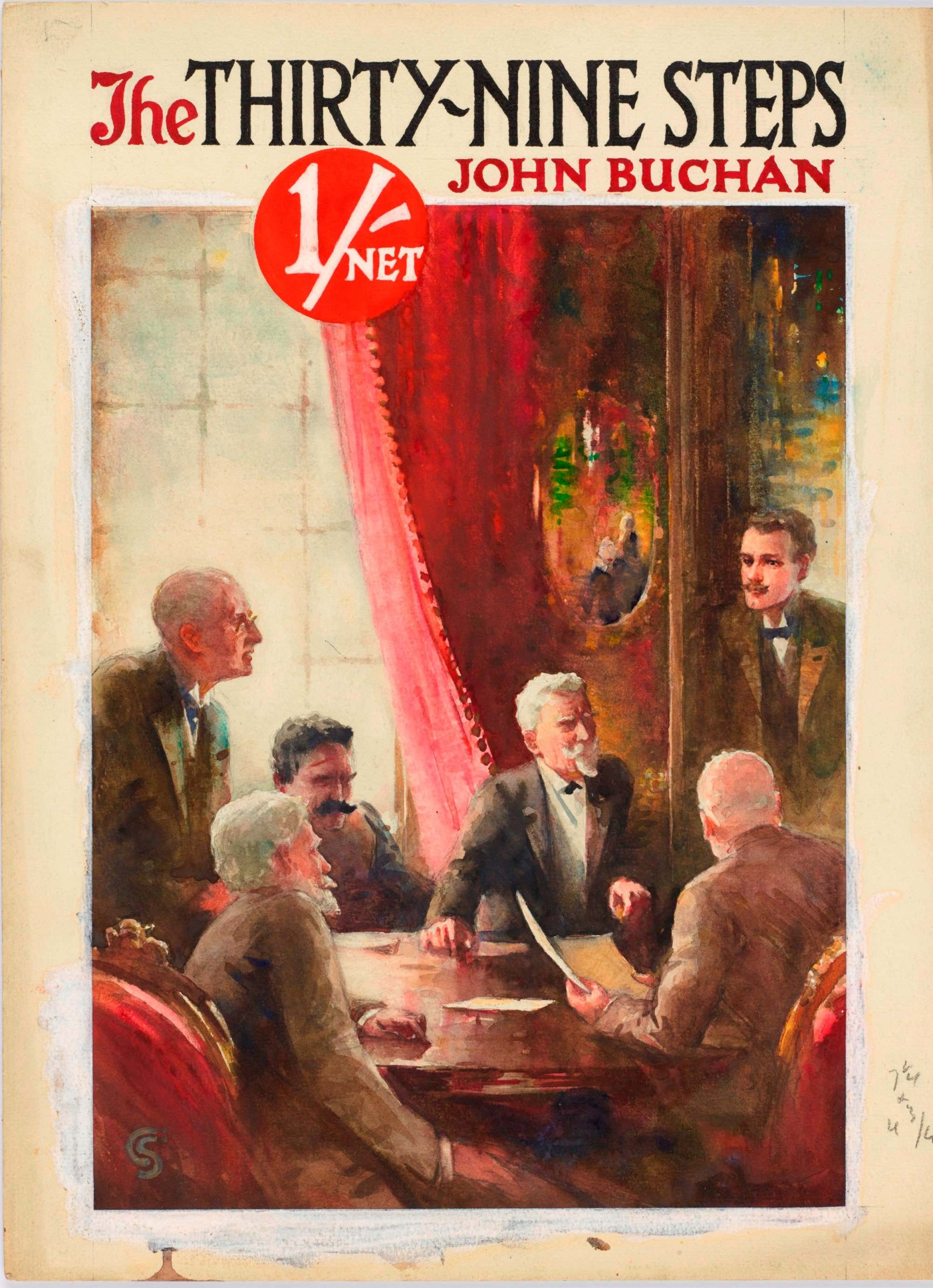 Cover for the first edition of The Thirty-Nine Steps by John Buchan.